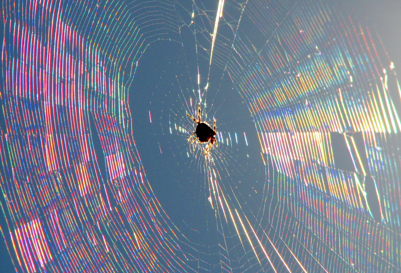 Garden Spider with net in back light, ..with an incident light with shimmering effect (and polarization of light?)